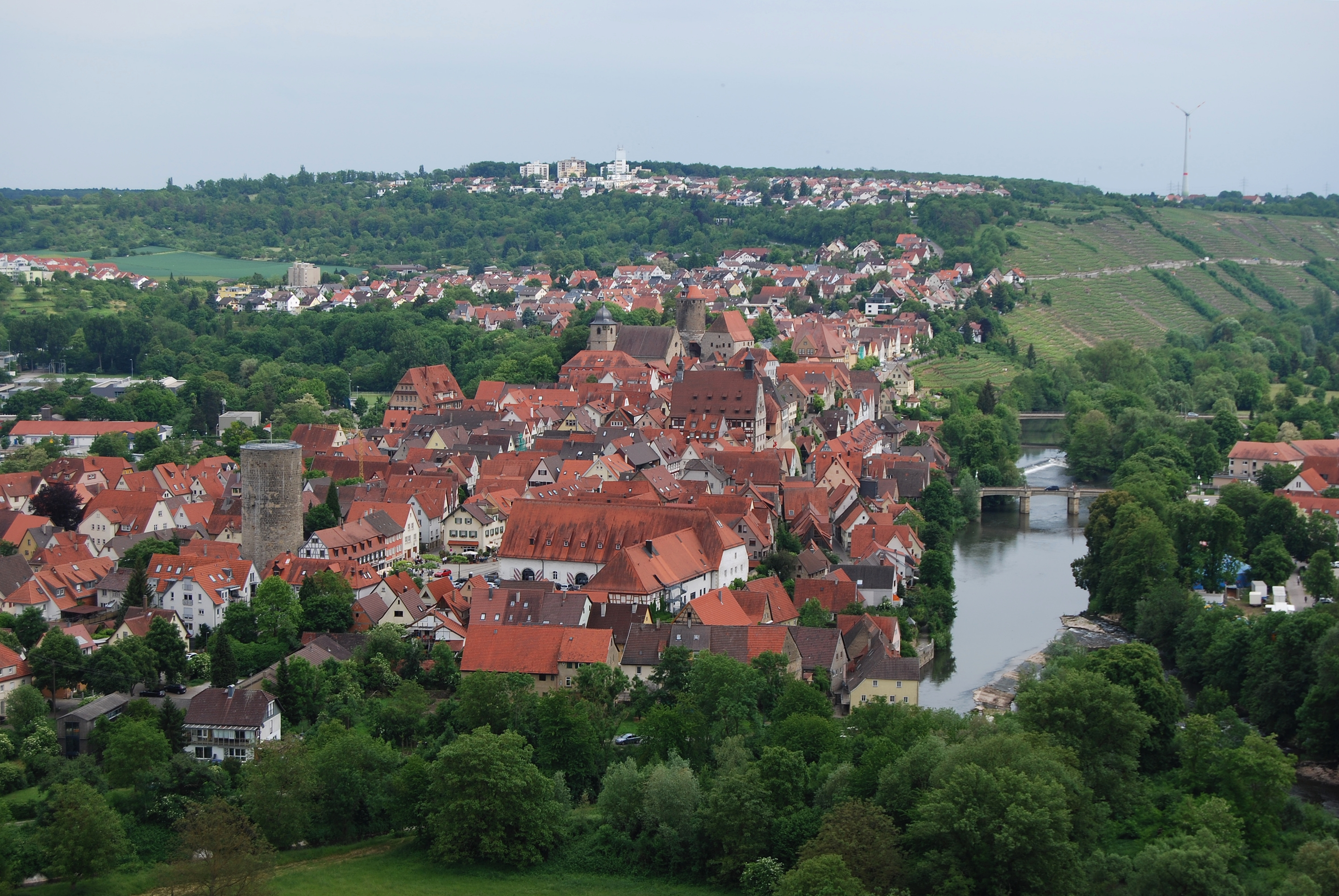 View over the historic center of Besigheim, Baden-Württemberg.